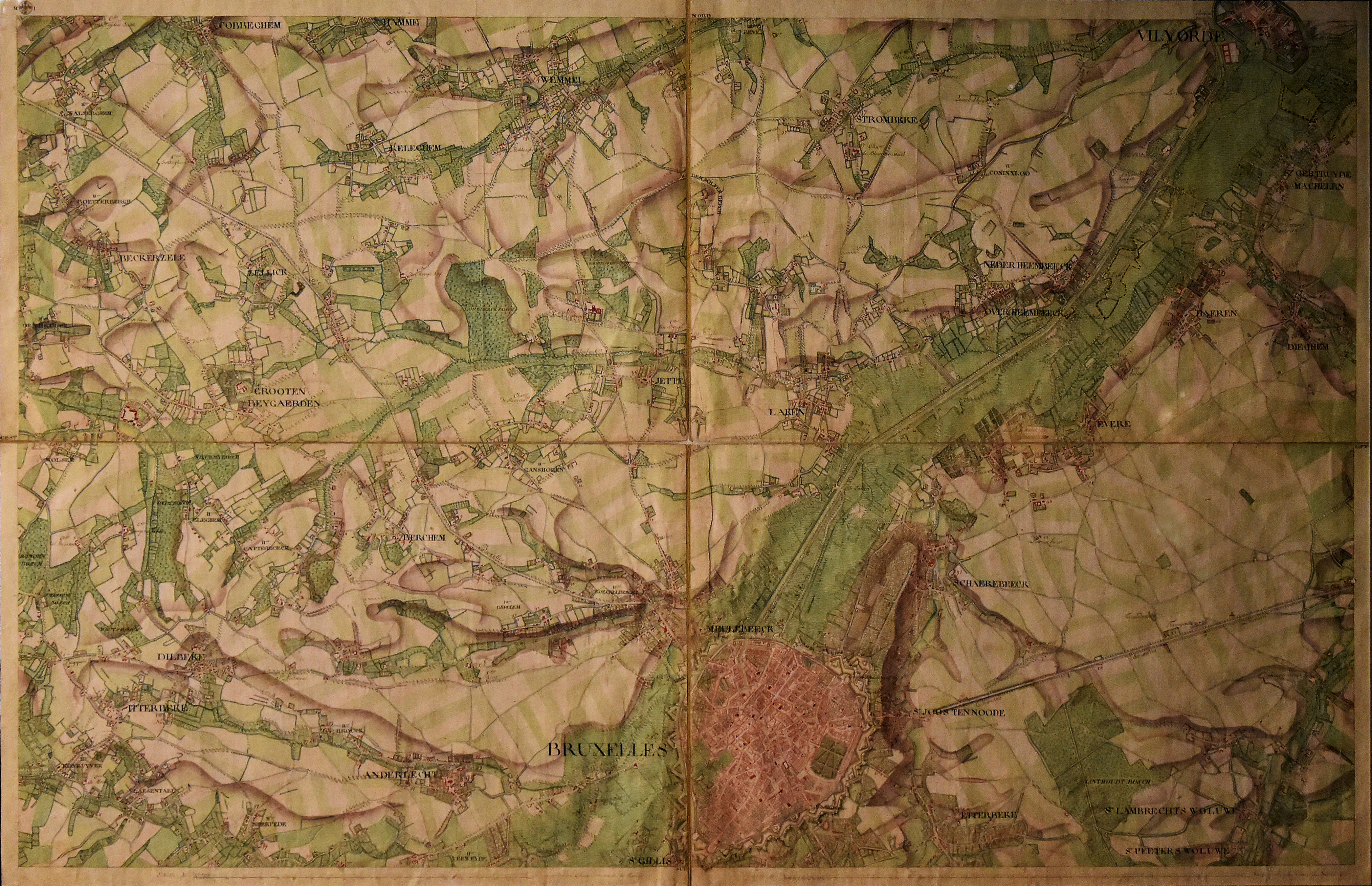 Brussels on the Ferraris map This is a file created at the museum: Royal Library of Belgium in Brussels